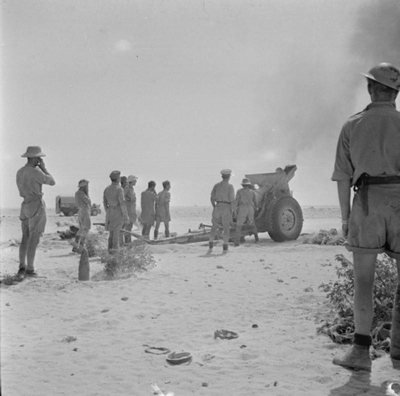 The British Army in North Africa 1942 A French-built 155mm howitzer of 212 Battery, 64th Medium Regiment, Royal Artillery, 23 July 1942.